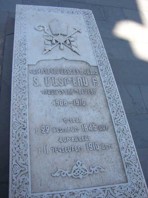 Catholicos of All Armenians Mateos Gosdantinobolsetsi